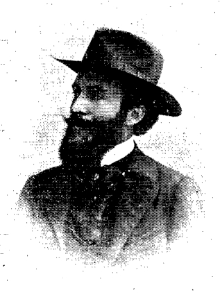 French publisher Karl Boès (1866-1914)